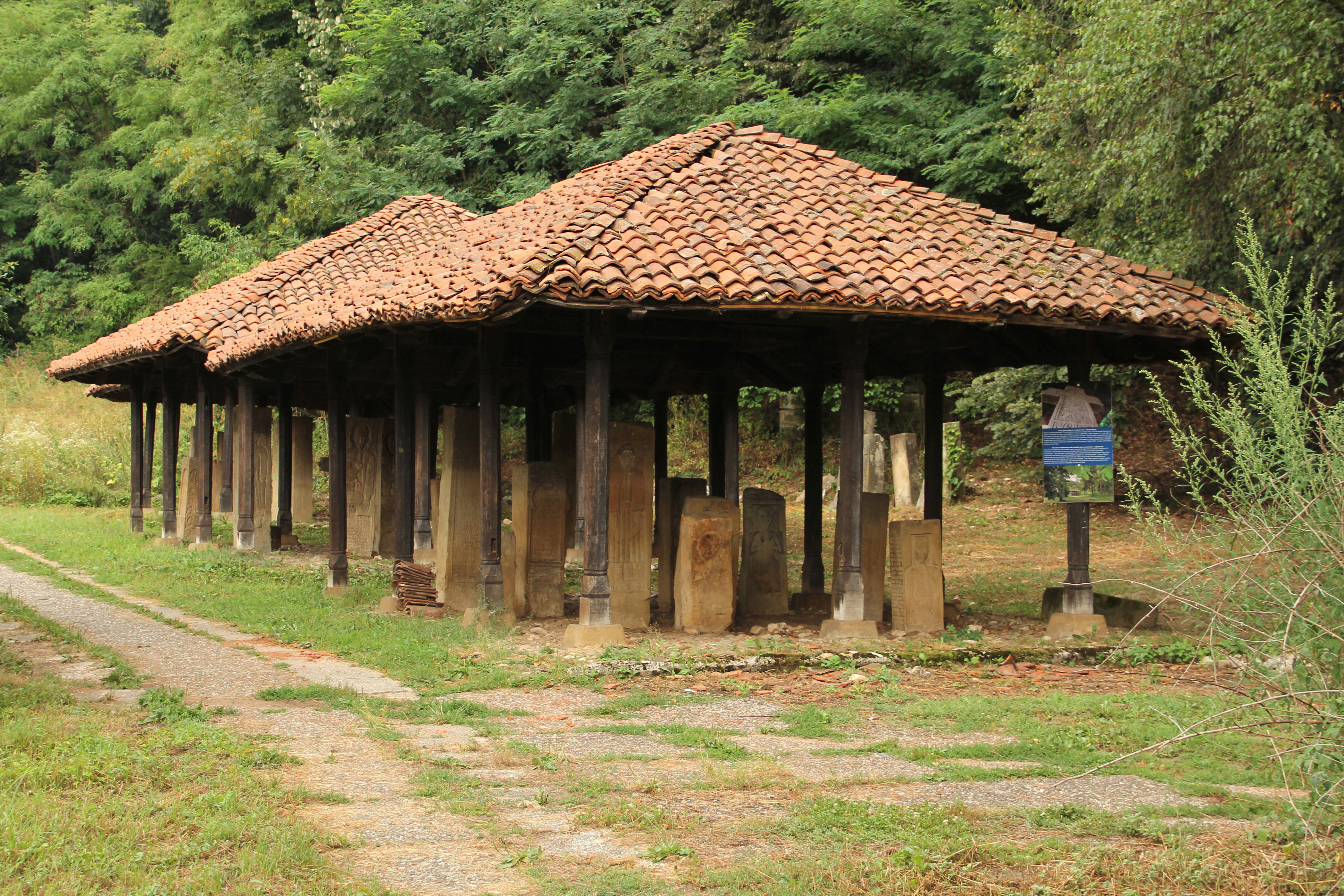 The open-air museum, Lapidarium in Guca, was founded in 1984. Here are exhibited the most beautiful examples of monuments and tombstones of Dragacevo. In three objects are presented 33 monuments, thematically classified into ten groups. They are characterized by interesting and eloquent epitaphs, as well decoration. On tombstones are represented characters of a warrior and farmers, students and women, trumpeters and reapers.